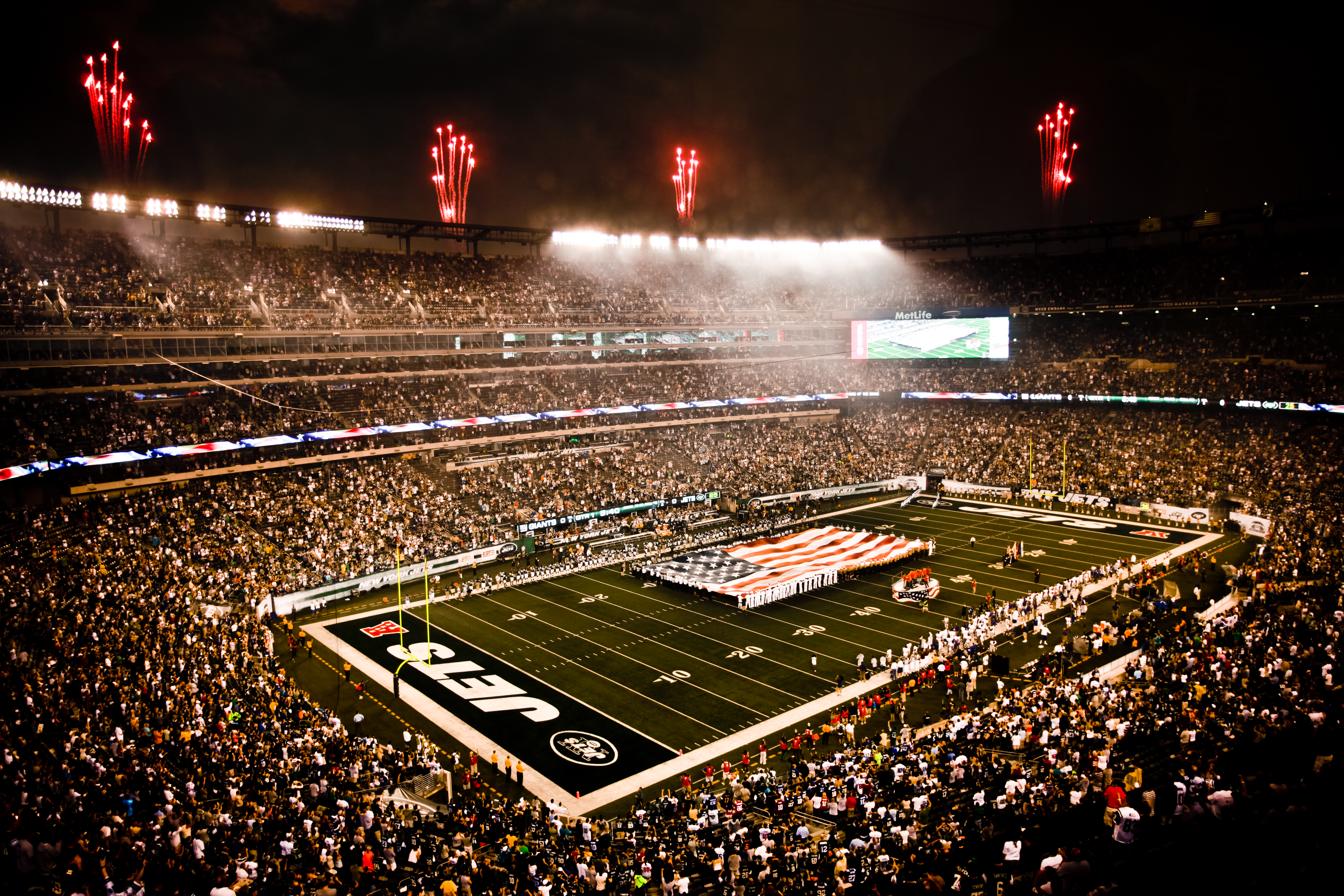 Marines, Sailors, Coast Guardsmen, Airmen and Soldiers unfurled an American Flag across the field during a pre-game ceremony before the New York Jets vs New York Giants game, Aug. 16, East Rutherford, N.J. The game was the first football game in MetLife Stadium, the newly built home of both New York football teams. (Official Marine Corps photo by Sgt. Randall A. Clinton / RELEASED)